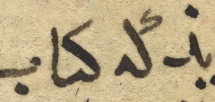 Sample showing isolated letter kāf with ‘alāmat al-ihmāl and initial letter kāf without ‘alāmat al-ihmāl. From Kitāb-i Kalīlah va Dimnah by ʻIbn al-Muqaffaʻ, 707.